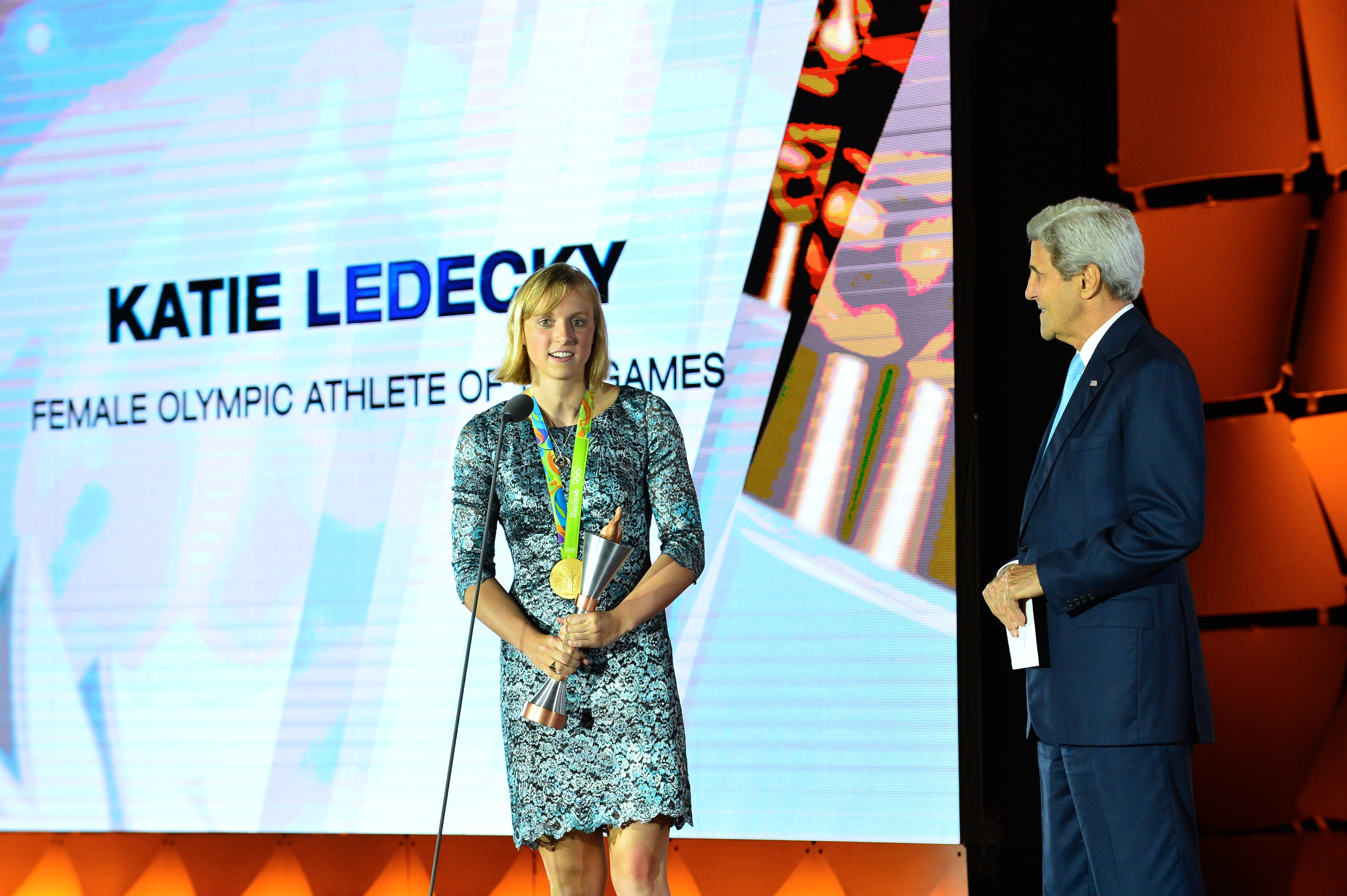 U.S. Secretary of State John Kerry, watches on as Katie Ledecky accepts her award for "Female Athlete of the Olympic Games" at the U.S. Olympic Committee Team USA Award Show, at Georgetown University, in Washington, D.C. on September 28, 2016. [State Department Photo/ Public Domain]